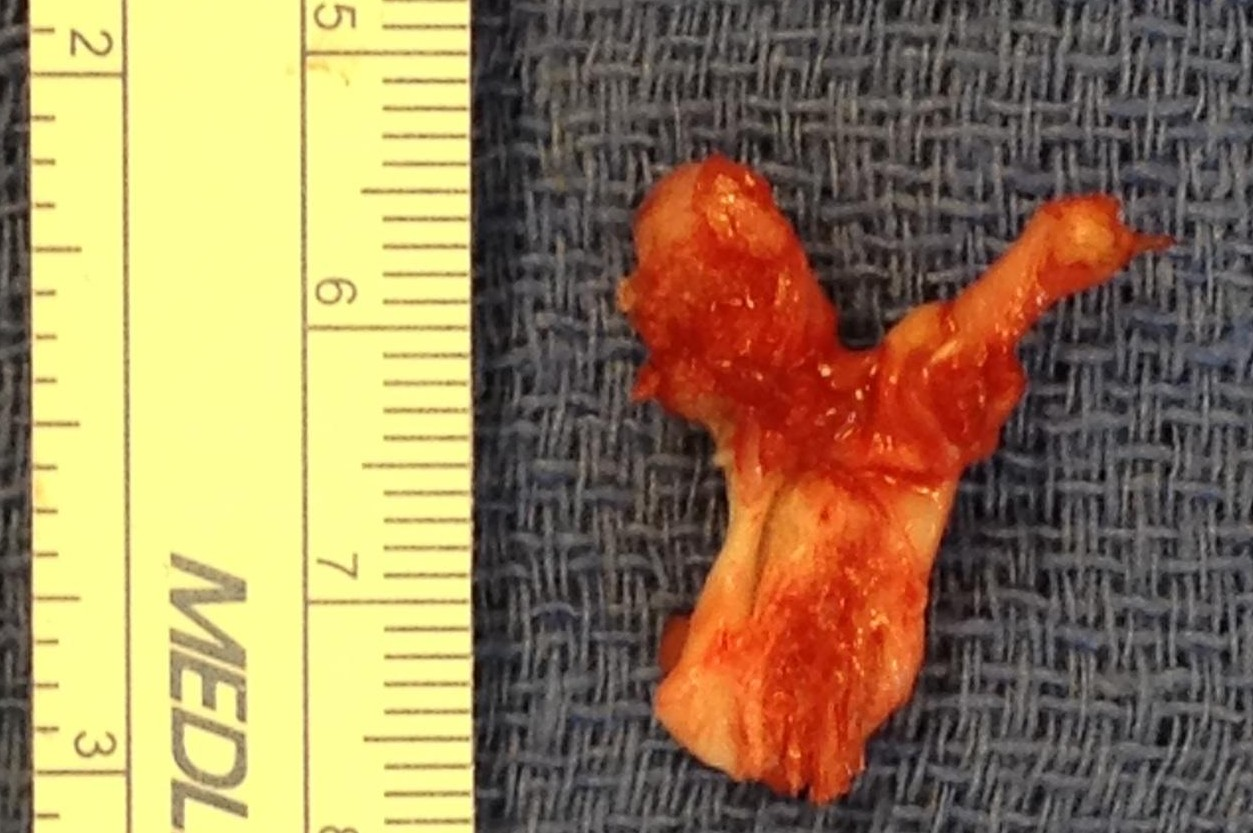 This is a photo after surgical extraction of an osteochondroma. The photo shows the bone about half an inch stalk, with two cartilage branches at the top, also about half an inch. The bone spur was surgically extracted from a ten-year-old female patient, November 29, 2012. Before surgery, pain was mild, possibly due to interference with tendons.